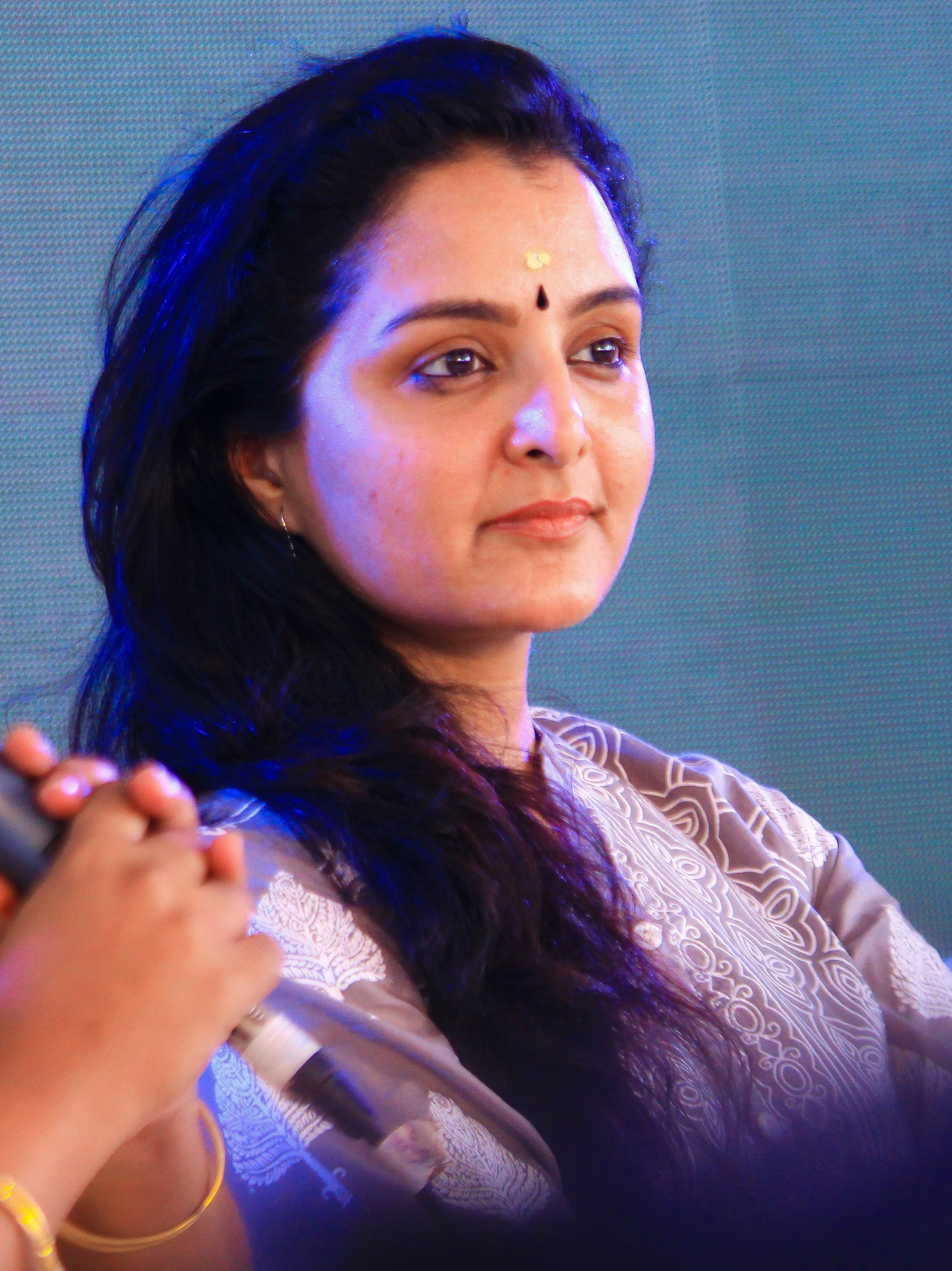 Manju Warrier in KLF 2018 on discussion about film Aami